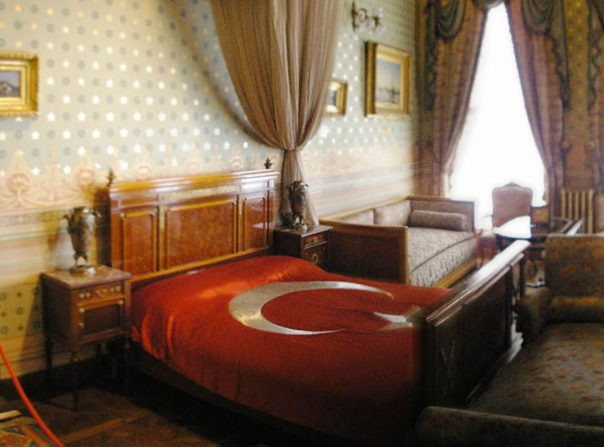 Atatürks deathbed (Atatürk'ün vefat ettiği oda) in Dolmabahçe Palace (#13 of the tour).